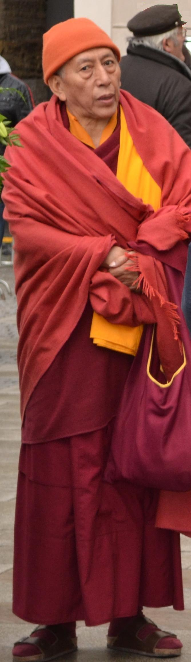 Professor Venerable Samdhong Rinpoche – Lobsang Tenzin (As Special Envoy of Dalai Lama, Prague 2011)